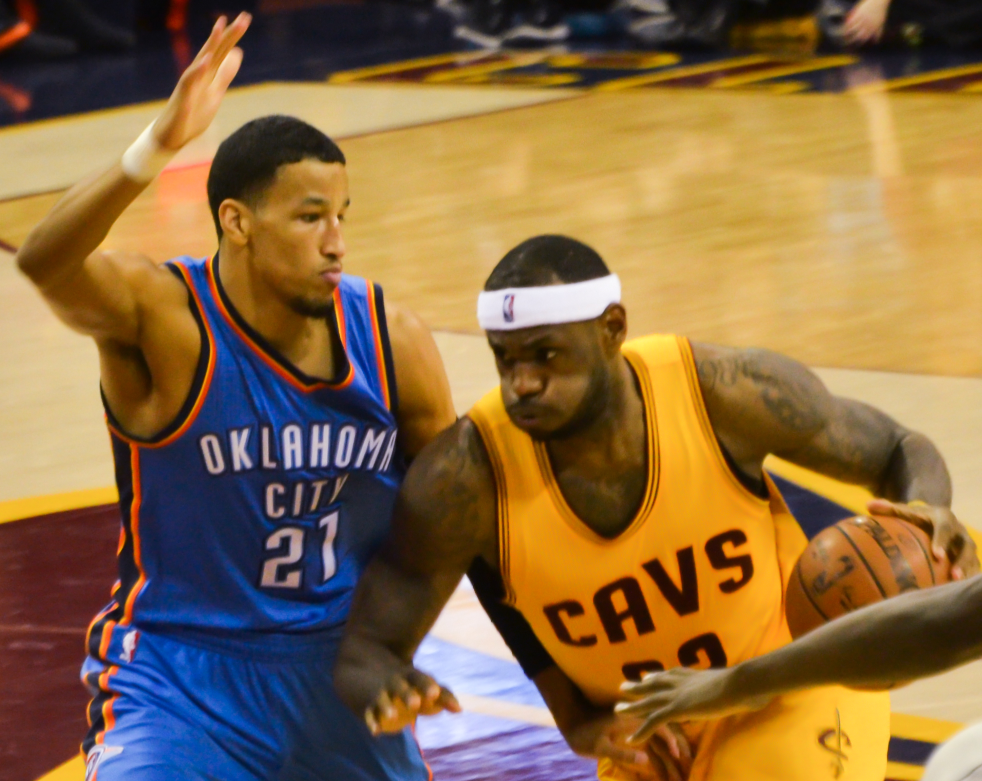 LeBron James of the Cleveland Cavaliers guarded by André Roberson of the Oklahoma City Thunder